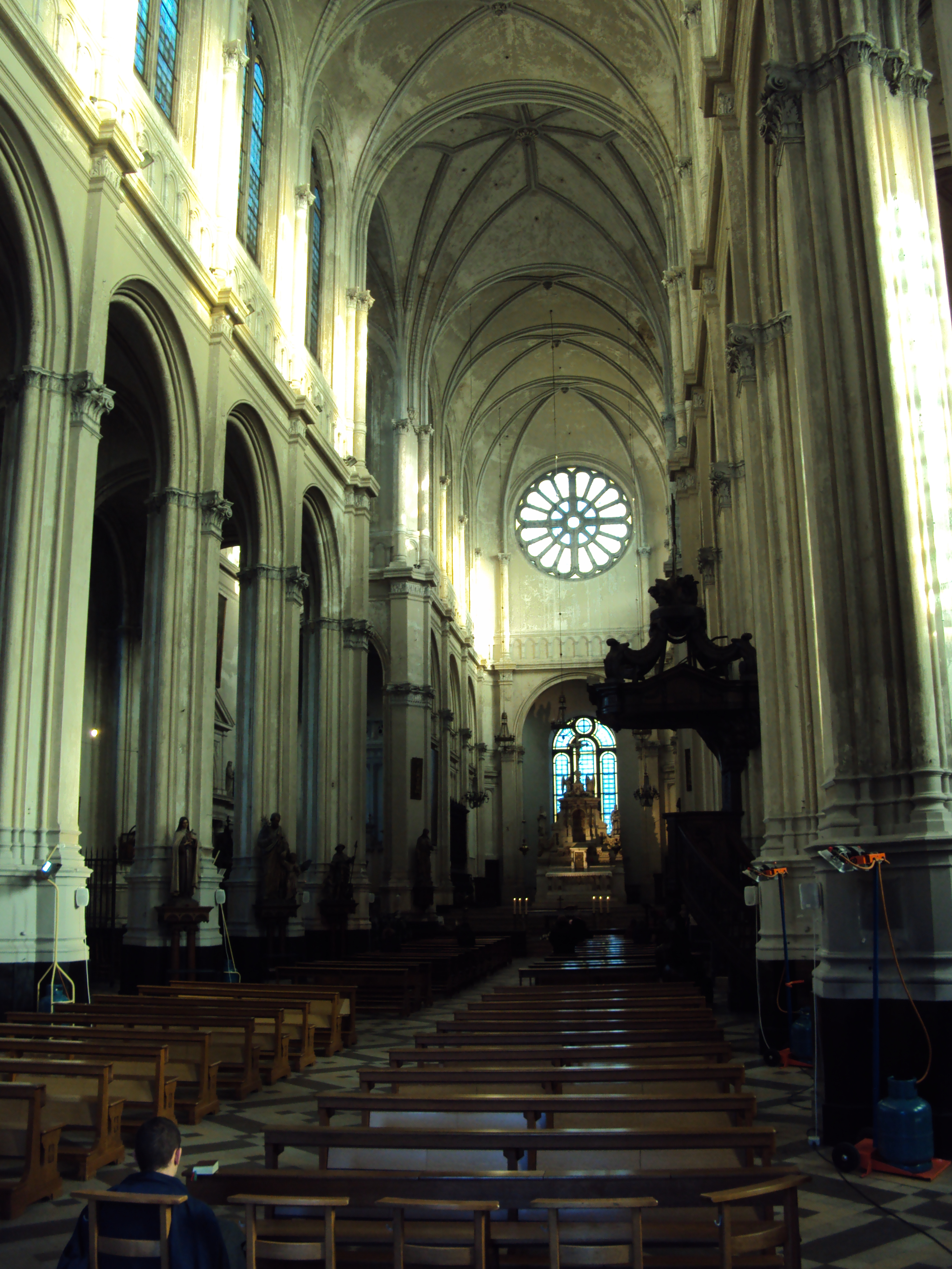 Interior vue of the church Sainte Catherine/Sint Katelijne in teh City Center of Brussels